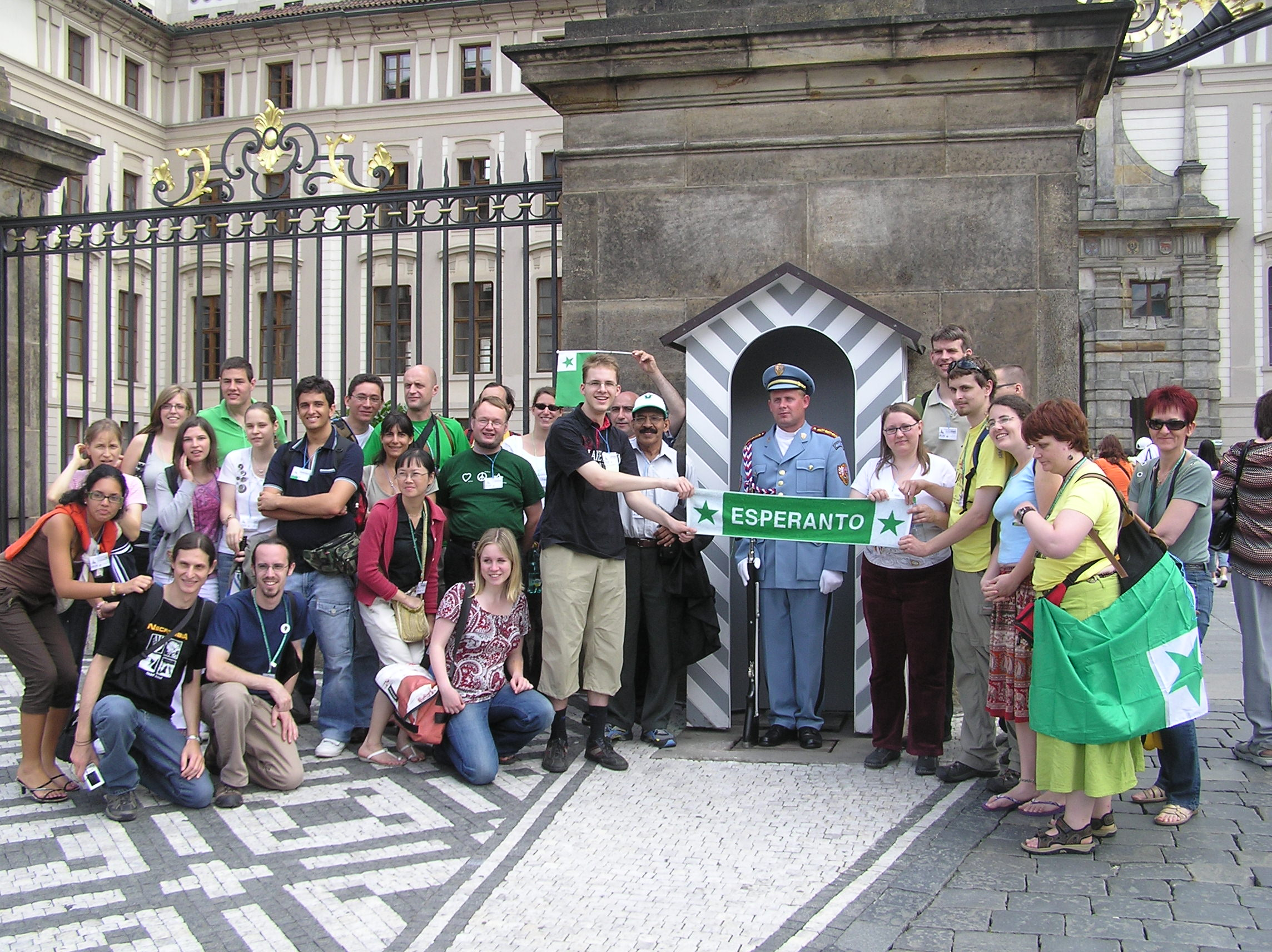 Group of participants of the 65th International Youth Congress of Esperanto (2009) by TEJO during a trip to Prague, with a guardi in front of the main gate of the Prague castle.